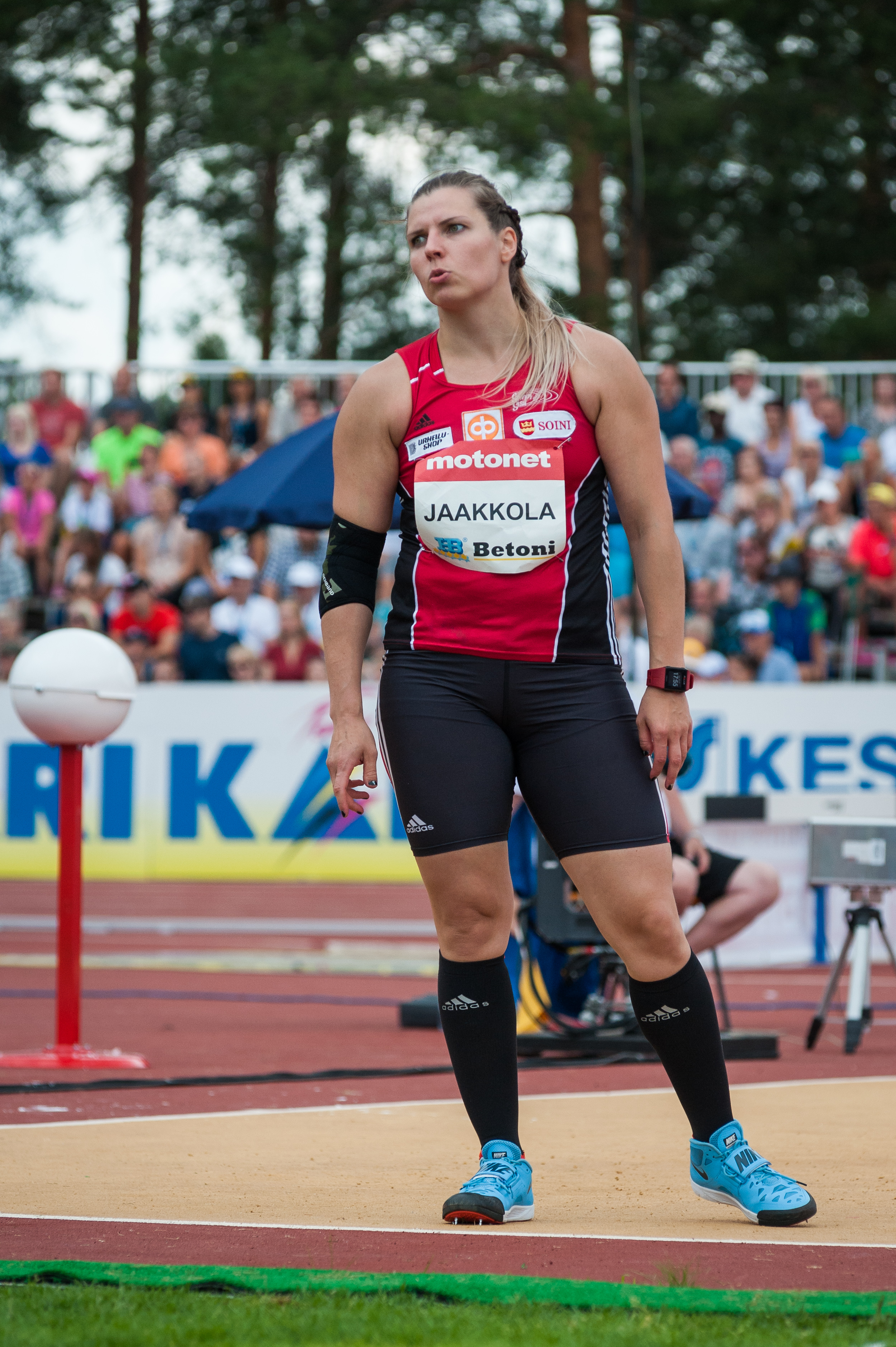 Women's javelin throw competition at the 2018 Kalevan Kisat, the Finnish championships in athletics, in Jyväskylä, Finland.